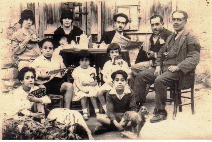 A Sardinian family while reading "L'Unione Sarda"